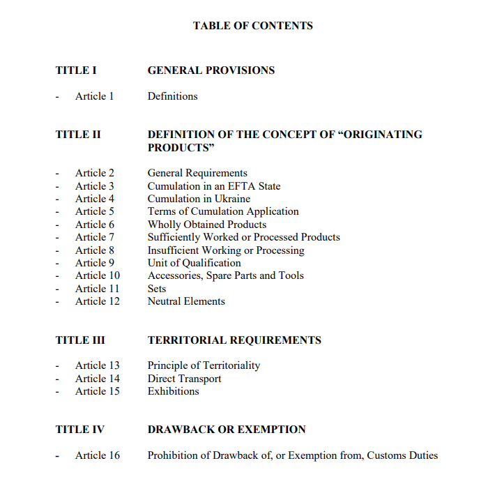 A protocol or annex on rules of origin normally contains a number of provisions.